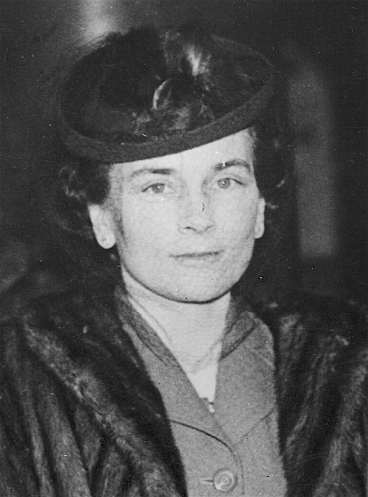 Alice, Duchess of Gloucester, at Euston Station in London on the eve of her departure to Australia, where her husband was to become the Governor-General.